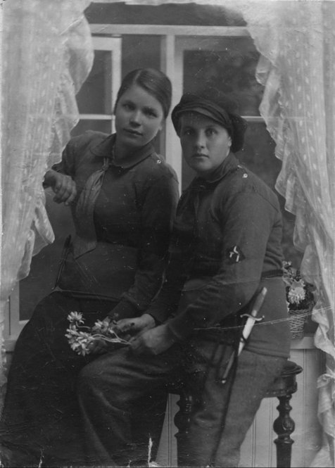 1918 Finnish Civil War: Cousins Tyyne Natalia Backberg (left) and Rauha Sinisalo, members of the Female Red Guards, pictured in Lahti 20 April 1918. Both were executed in May 1918.